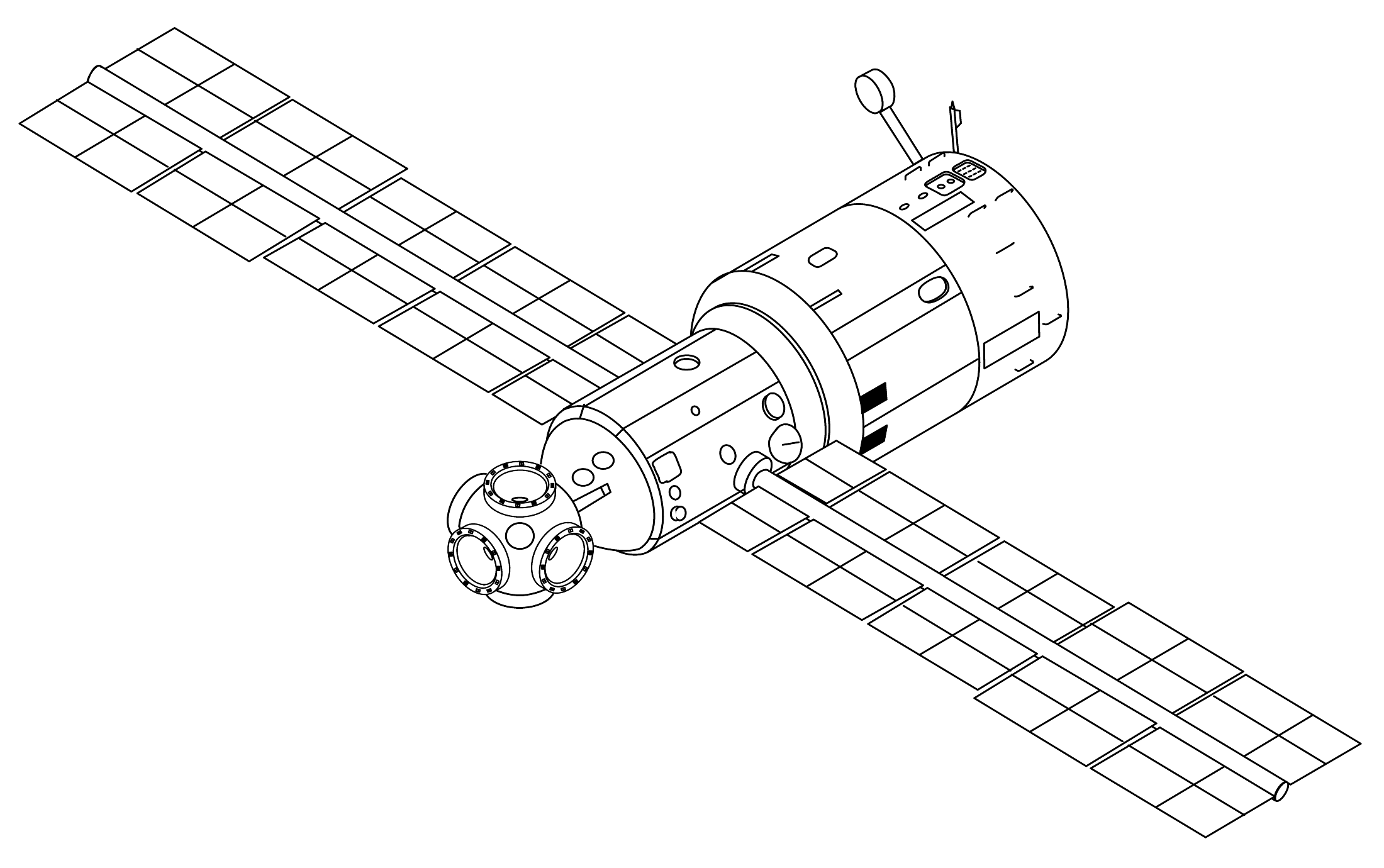 The core module of the Soviet/Russian space station Mir. The multiport node at the module’s forward end (left) has one longitudinal docking port (used for Soyuz & Progress dockings) and four lateral berthing ports, to which the rest of the station's modules were berthed.